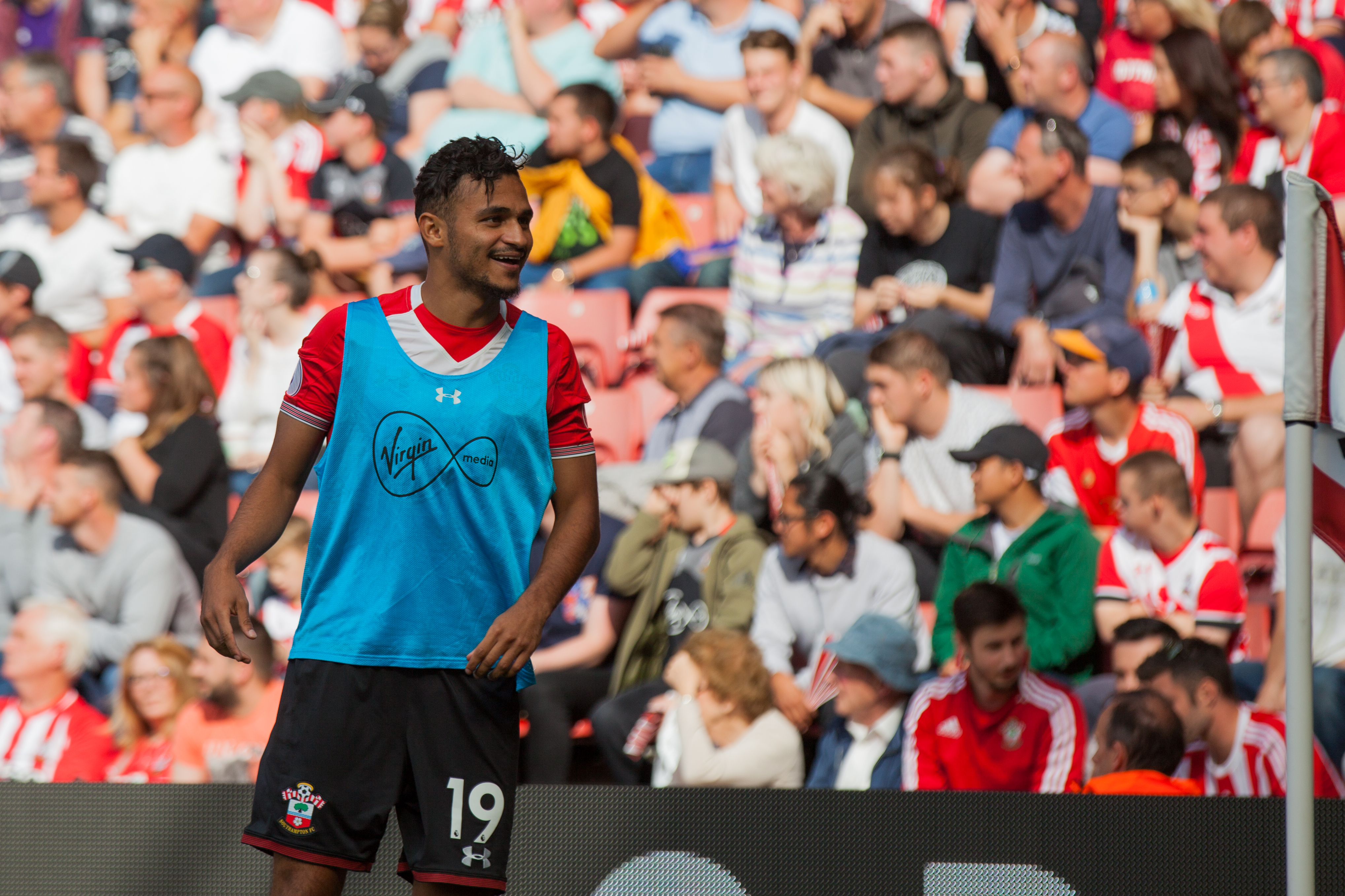 Image by Steve Hogg 19th August 2017